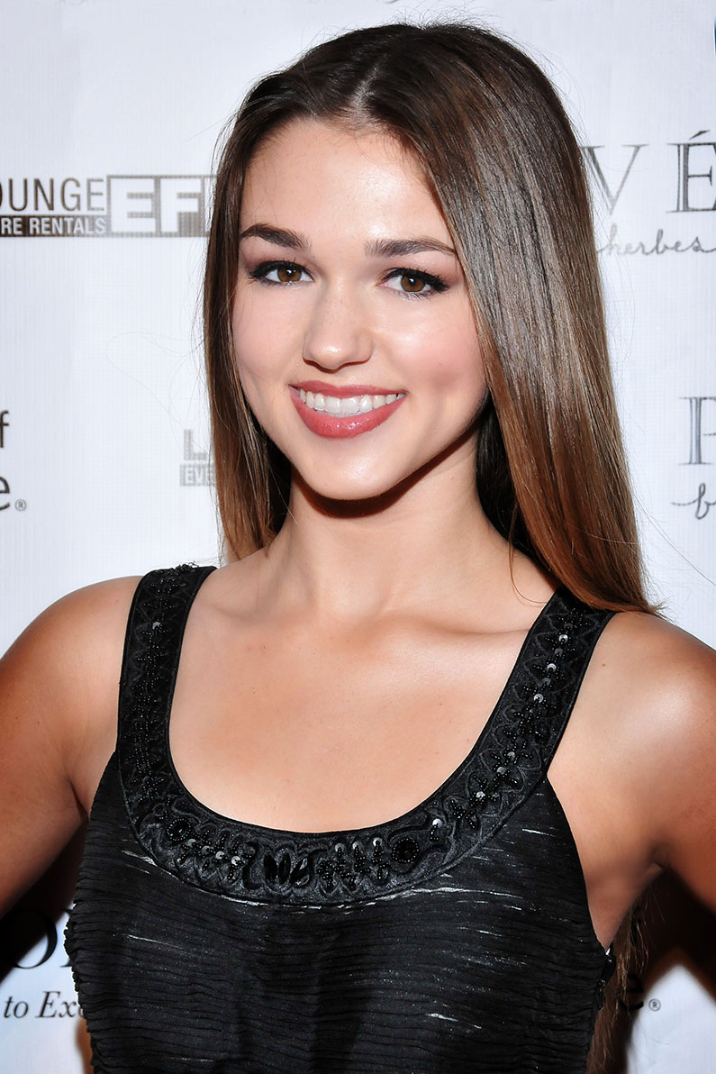 Sadie Robertson, Los Angeles, California on October 15, 2014 - Photo by Glenn Francis of